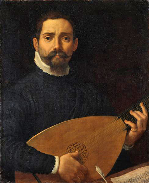 The sitter has been identified as Giulio Mascheroni of Bologna. Formerly identified as Giovanni Gabrielli (e.g., see Henner Menz [cited by Askew]), an Italian actor of commedia dell'arte, who should not be confused with the Italian composer Giovanni Gabrieli, this identification was rejected by both Mahon and Posner, according to Askew, who cites Malvasia to suggest the sitter was a member of the Mascheroni family of Bologna. The sitter is now believed to be Giulio Mascheroni (see References).